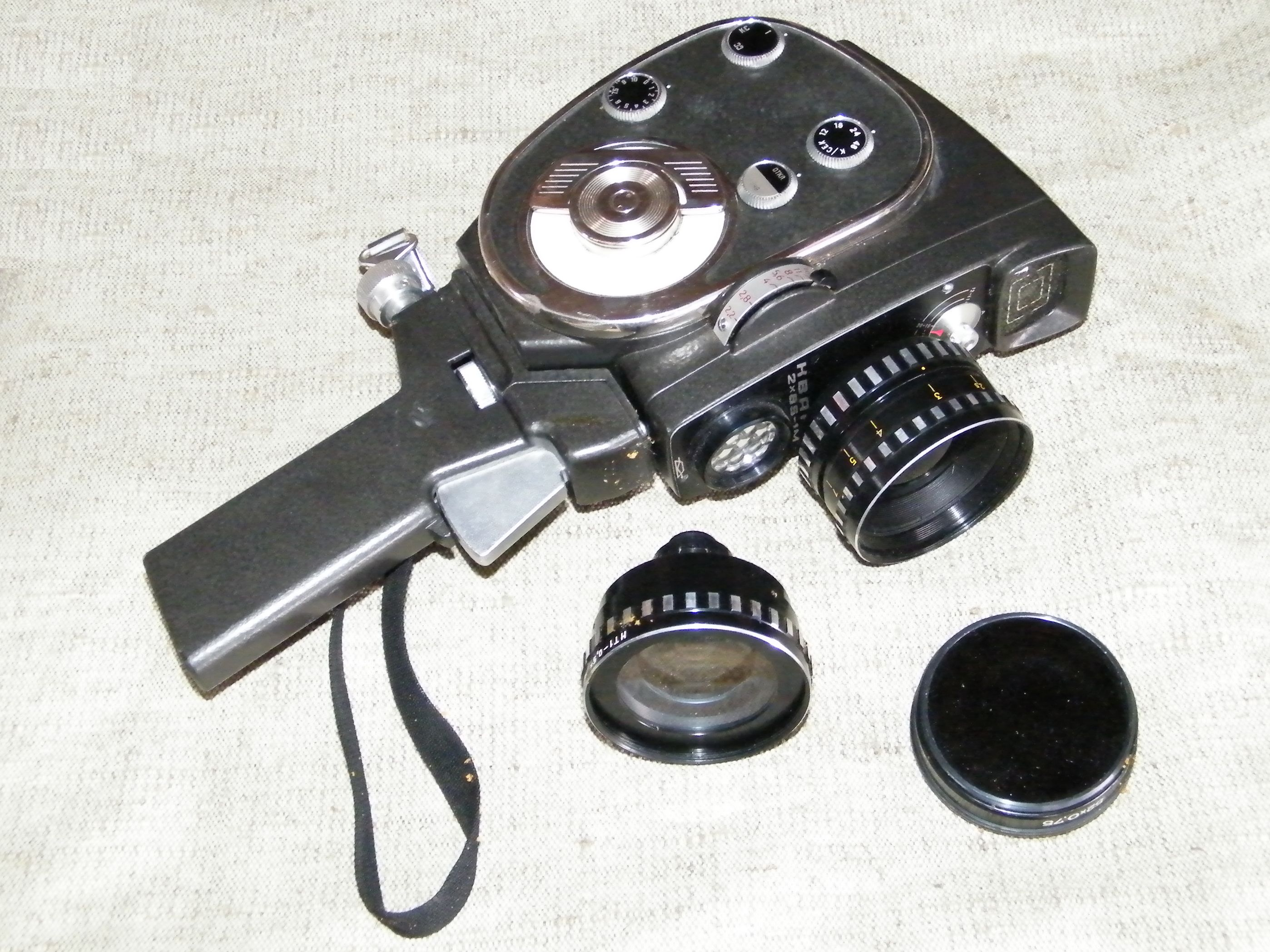 Кварц-2×8С-1М